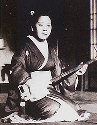 Taka Isoda, a famous mistress of the tea-house Daitomo, where many literary men gathered, in Gion, Kyoto, Japan